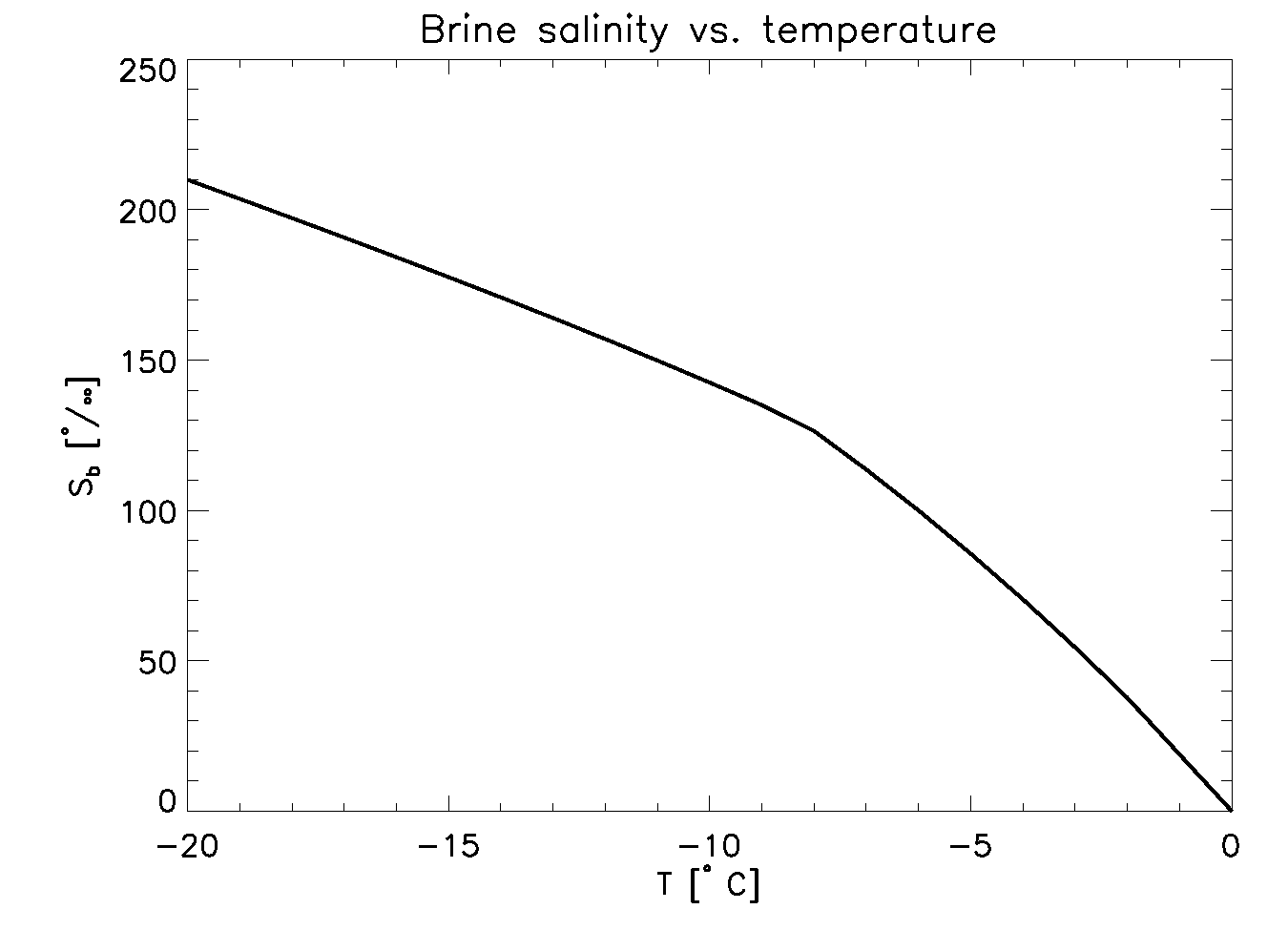 Brine salinity as a function of temperature - brine is held at freezing point.